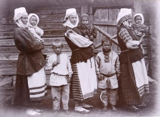 Belarusians from Babruysk district, Belarus. Old prewar postcard.